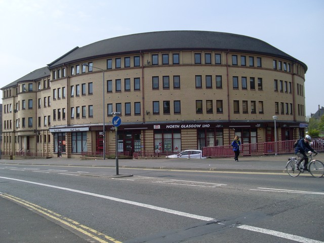 North Glasgow Local Housing Office In Springburn.